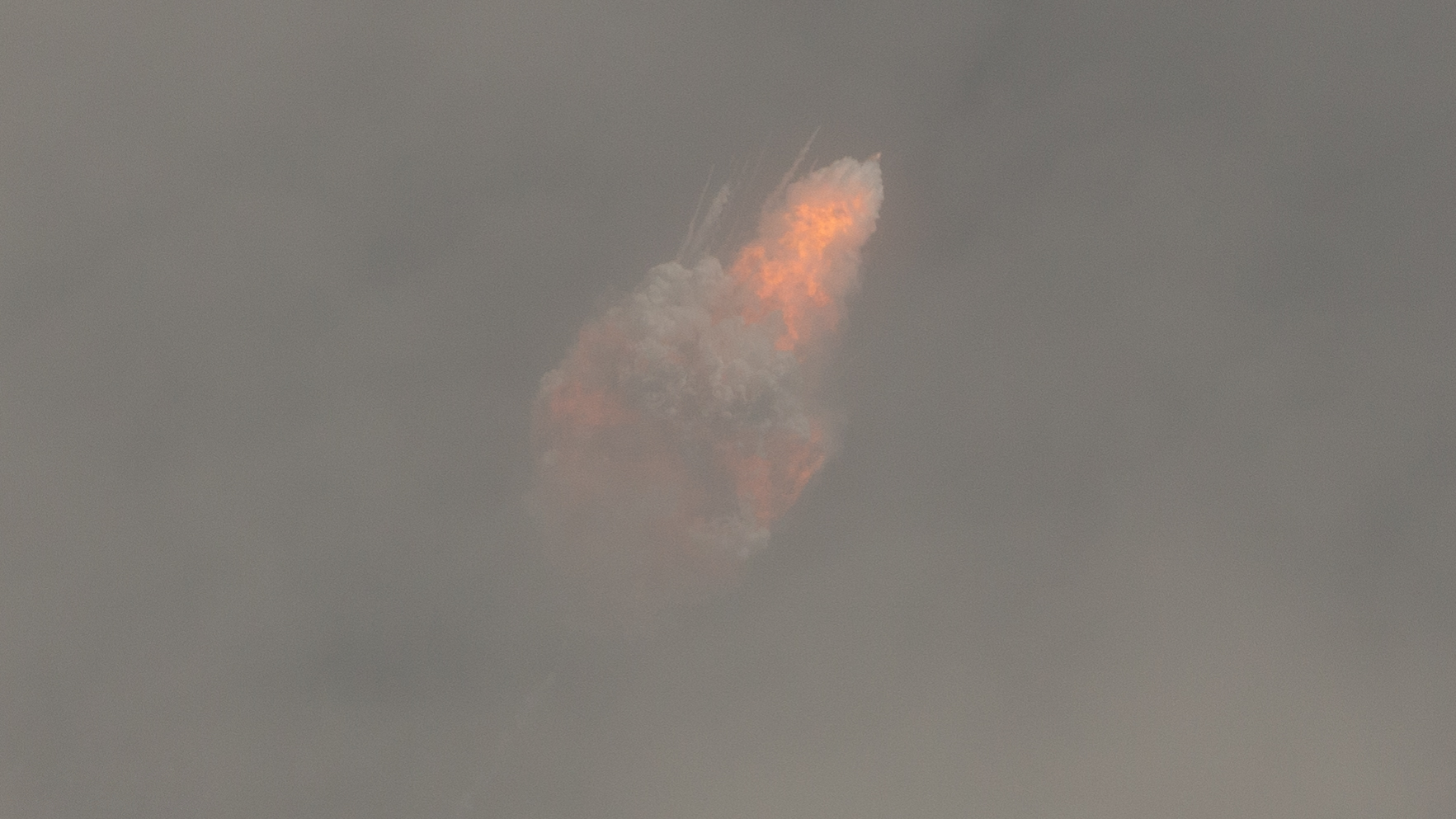 B1046.3 exploding during SpaceX's In Flight Abort